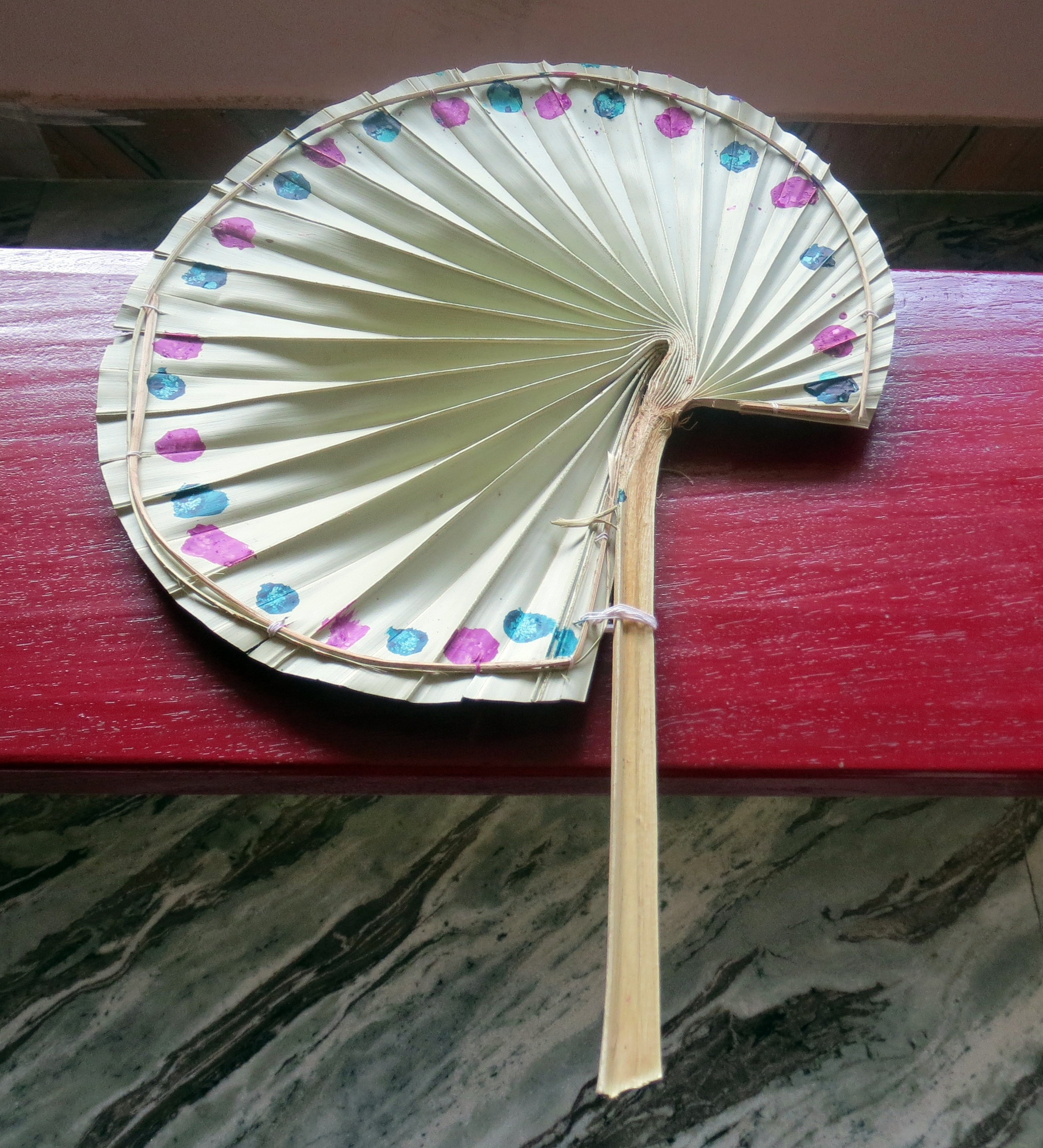 A hand made fan made of palm leaves. These fans were in usage in Tamil nadu before the arrival of electric fans. Tamil: வட்ட வடிவ பனை ஓலை விசிறி. இவை மின்விசிறியின் வரவால் வழக்கொழிந்து போயின.